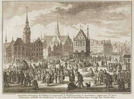 Yearly procession of guilds and lepers on Copper Monday, (the first monday after Three Kings on January 6th), that ceased to take place in 1604.